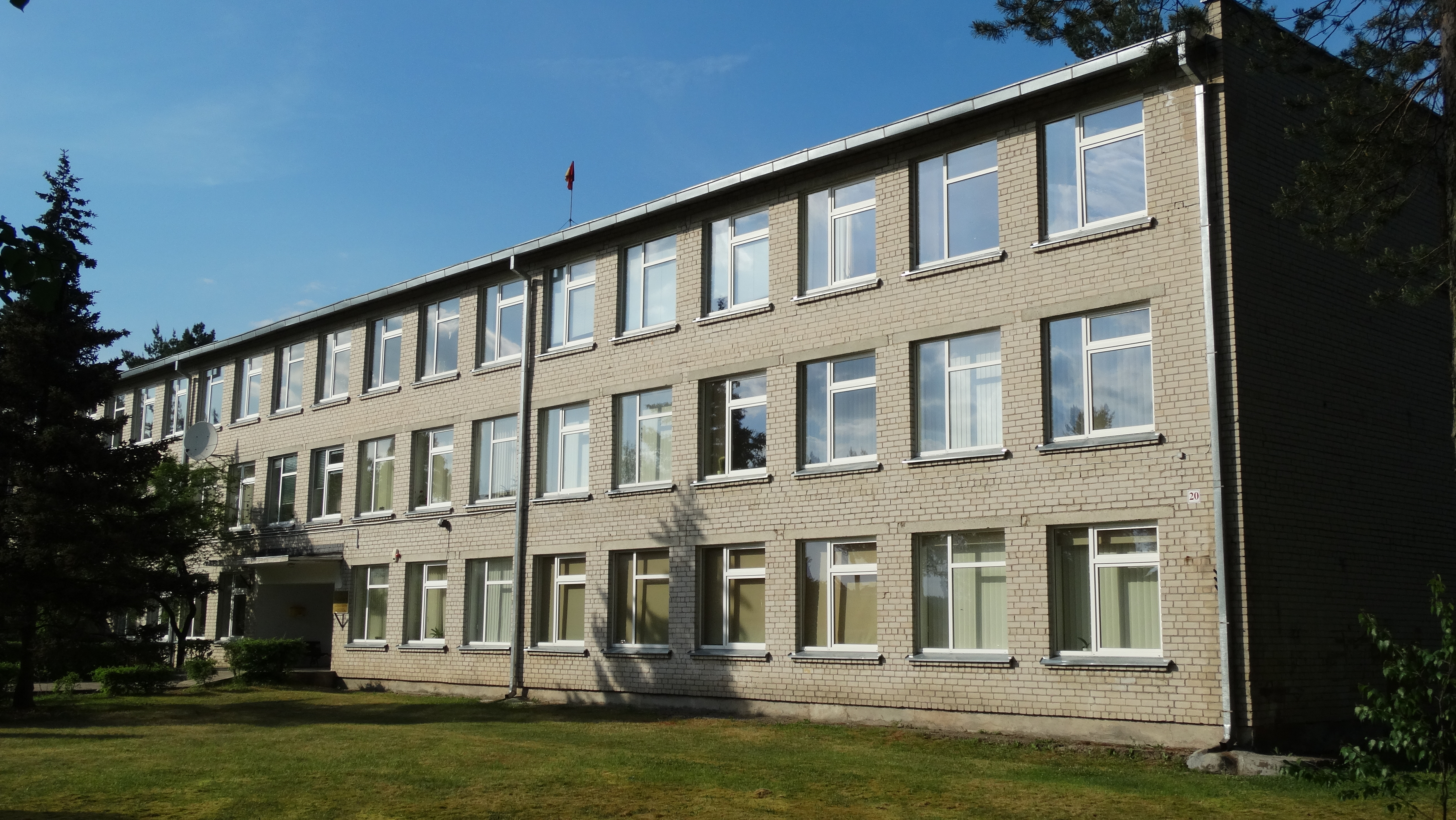 Konstanty Parczewski Gymnasium, Nemenčinė, Vilnius District, Lithuania